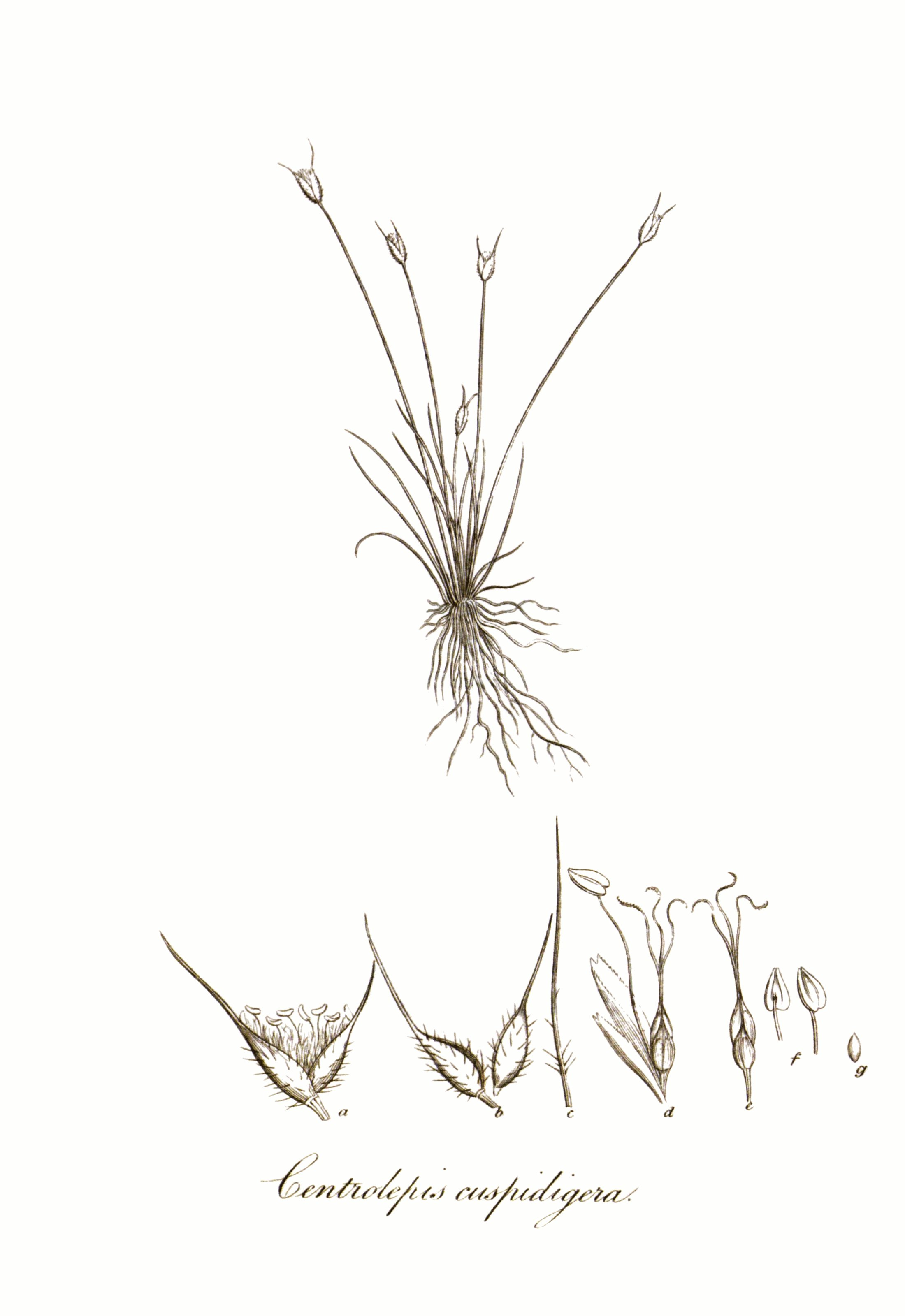 Illustration of Centrolepis cuspidigera from a page from Volume X of Transactions of the Linnean Society of London, published in 1811.